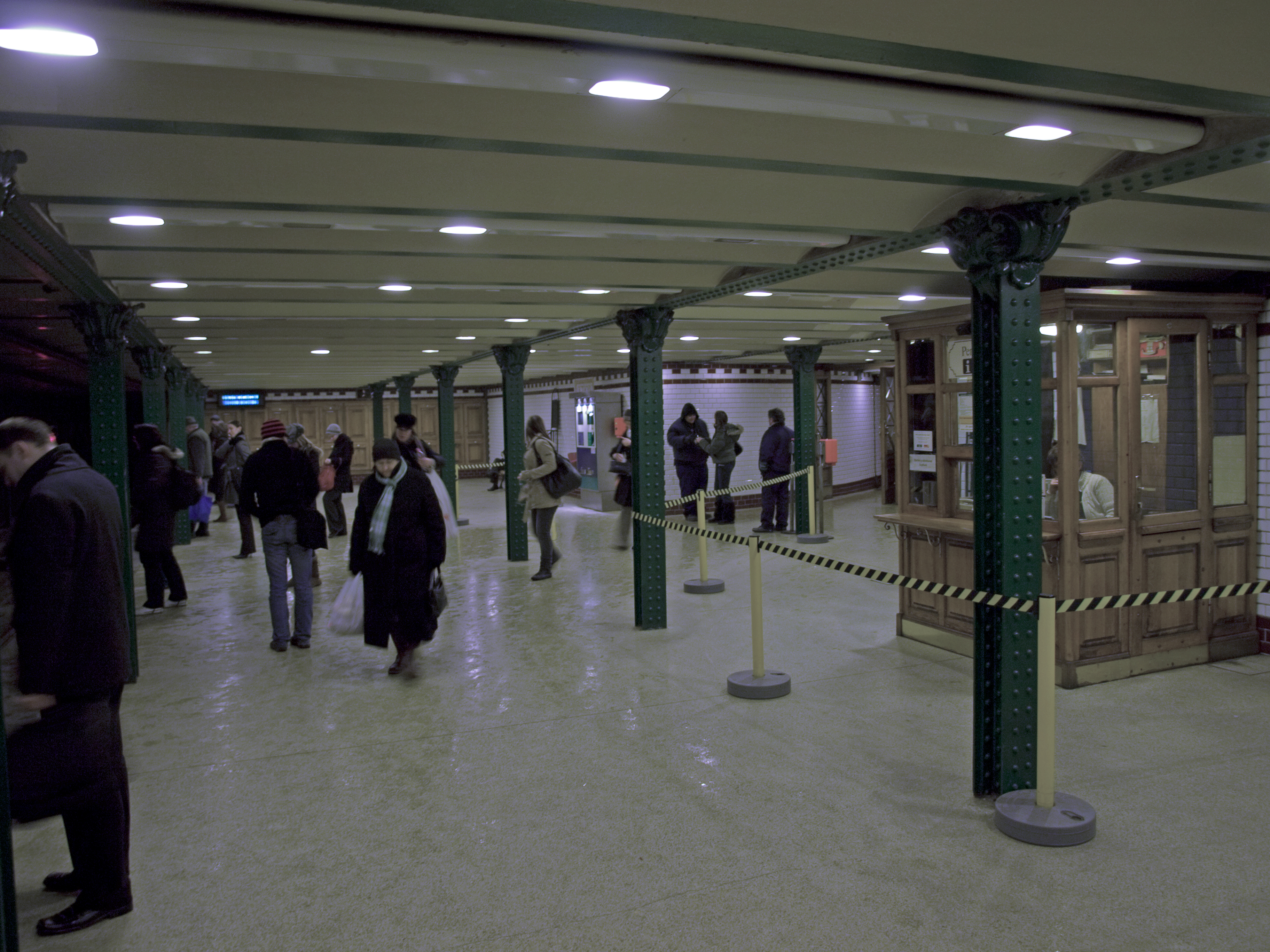 Entrance to Oktogon Station, Budapest metro (direction east)